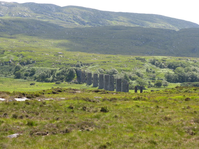 Old piers of Owencarrow Viaduct This railway viaduct stood on the Burtonport Extension of the Londonderry and Lough Swilly Railway, a 3ft gauge line which ran almost 50 miles from Letterkenny, encircling the Donegal Mountains. On 31 January 1925 a severe gale sweeping down through the Barnes Gap caused a serious accident when part of a train was blown off the viaduct, causing the death of four passnegers. The line was later repaired, but closed finally in 1941. If this line could ever be reinstated it would be a major tourist attraction for this part of Ireland.